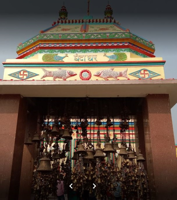 Baba Mahendra Nath Mandir Mehdar, Siwan , Bihar